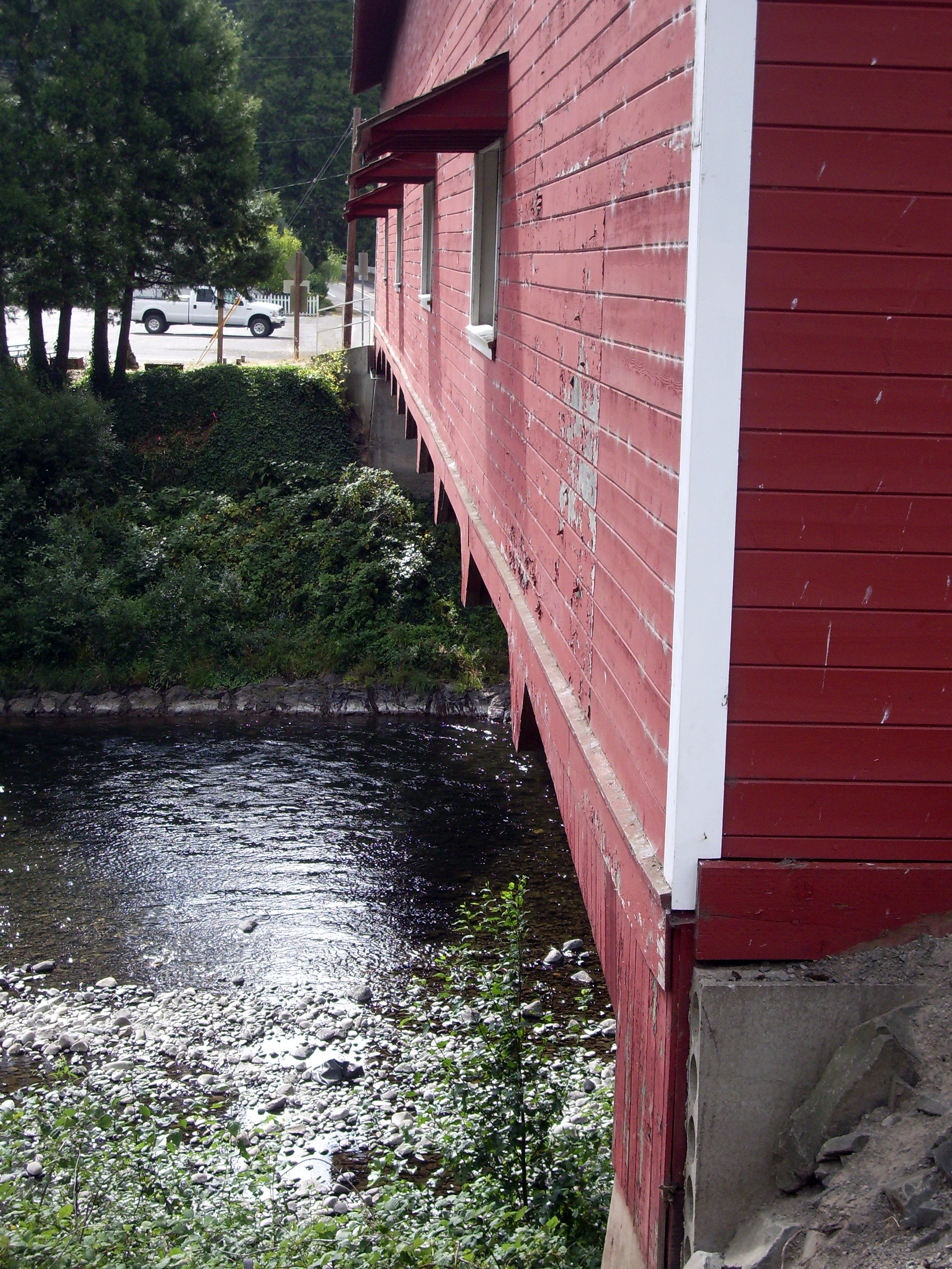 Office Bridge in Westfir, Oregon over the North Fork Middle Fork Willamette River